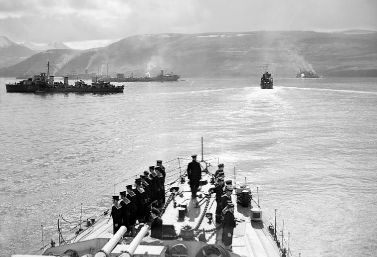 Escorts and merchant ships at Hvalfjord before the sailing of Convoy PQ-17. Behind the destroyer Icarus (1.03) is the Russian tanker AZERBAIJAN. The sea voyage to the north Russian ports of Murmansk and Archangel was the shortest route for sending Allied supplies to Russia. But it was also the most dangerous owing to the large concentration of German forces in northern Norway. The convoy PQ-17 was decimated by U-boats and the Luftwaffe after a communication from the Admiralty on 4 July 1942 ordered the escort to 'scatter'.